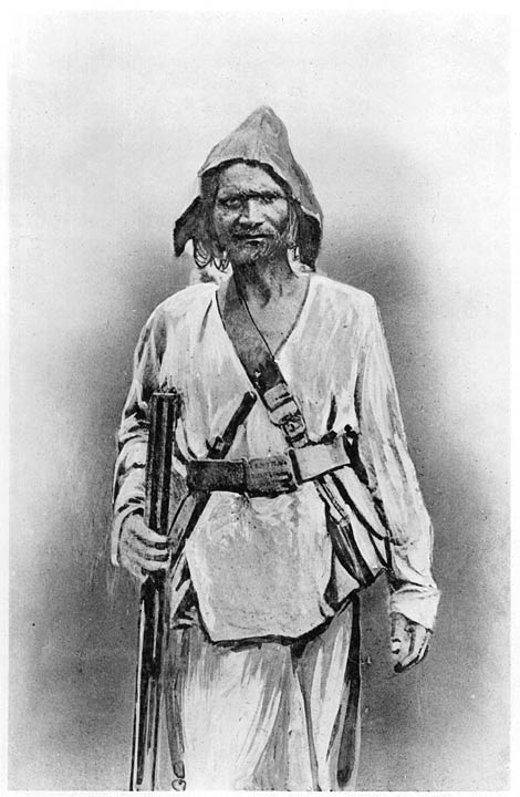 Image of Tantia Bhil, a "dacoit" (robber) in the Madyha Pradesh state of India; hanged by Raj authorities in 1890